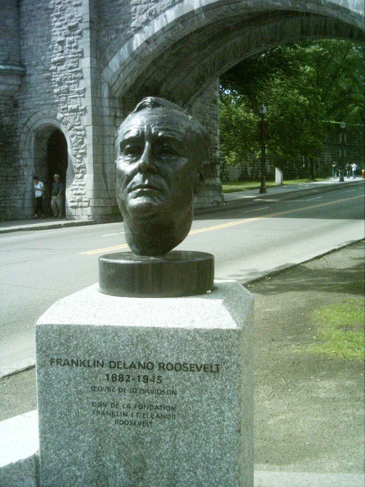 Franklin Delano Roosevelt in Quebec City